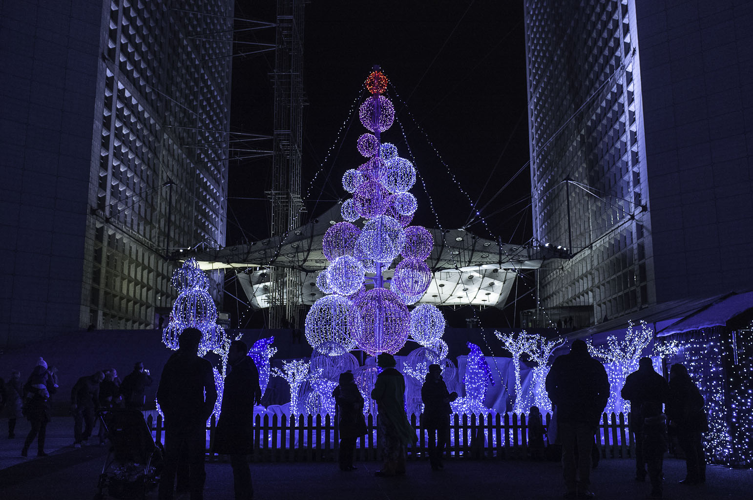 Christmas decorations at the Grande Arche.